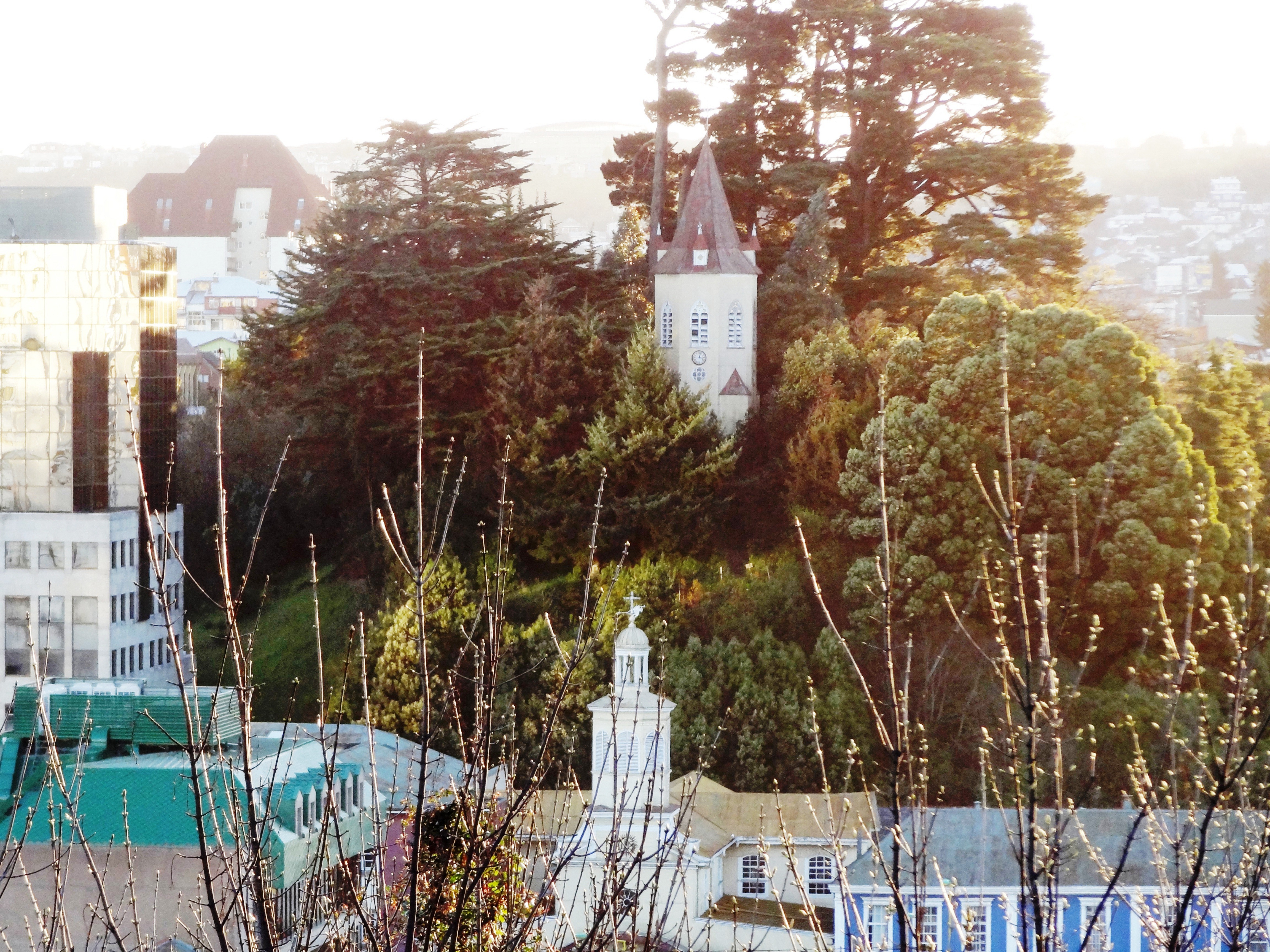 The Bell Tower of San Francisco Javier College of Puerto Montt, dating from 1894, is a wood structured building.